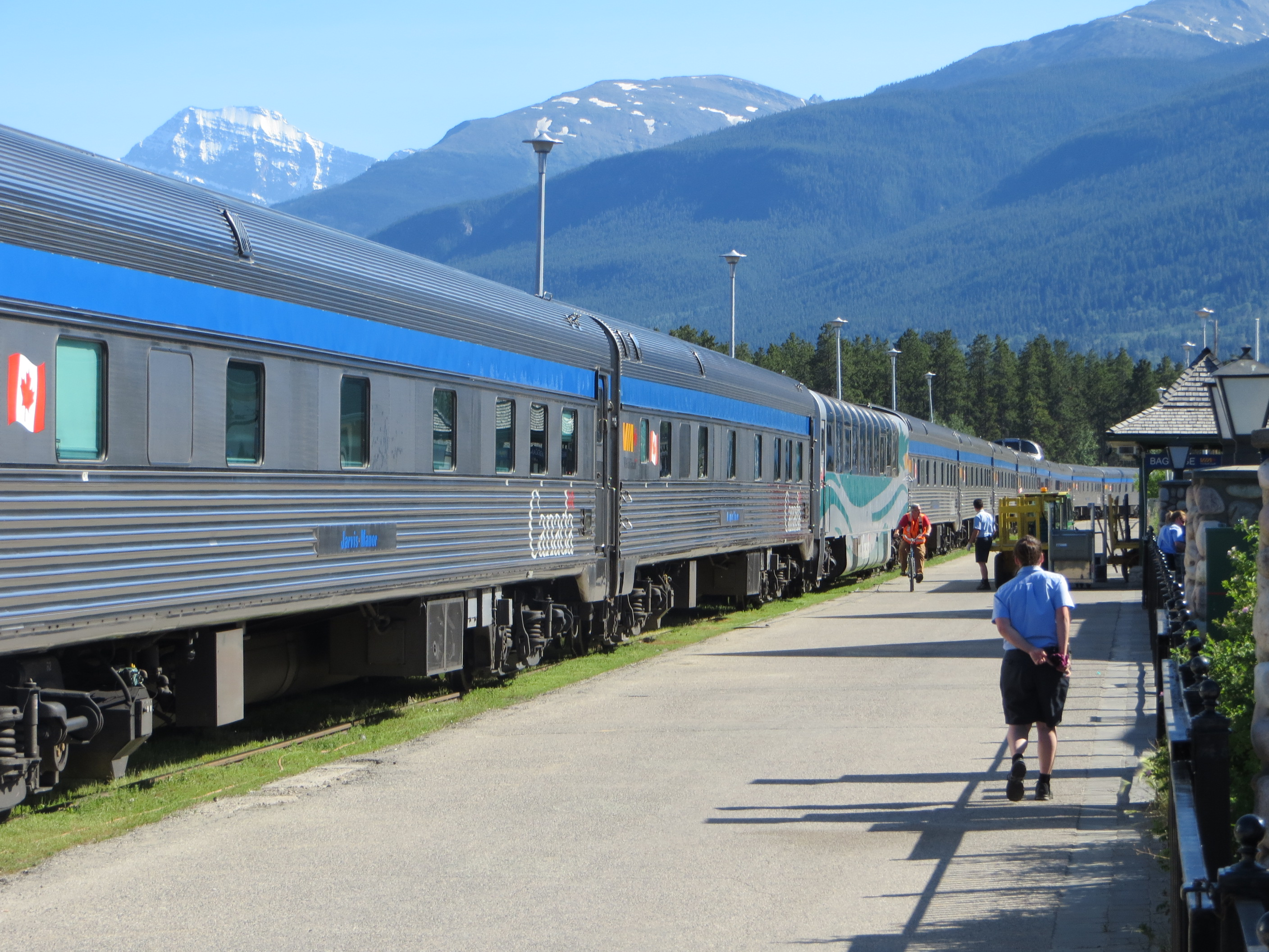 The Canadian at Jasper, Alberta. The first two cars are Manor series sleeping cars; the third is a Panorama Dome.